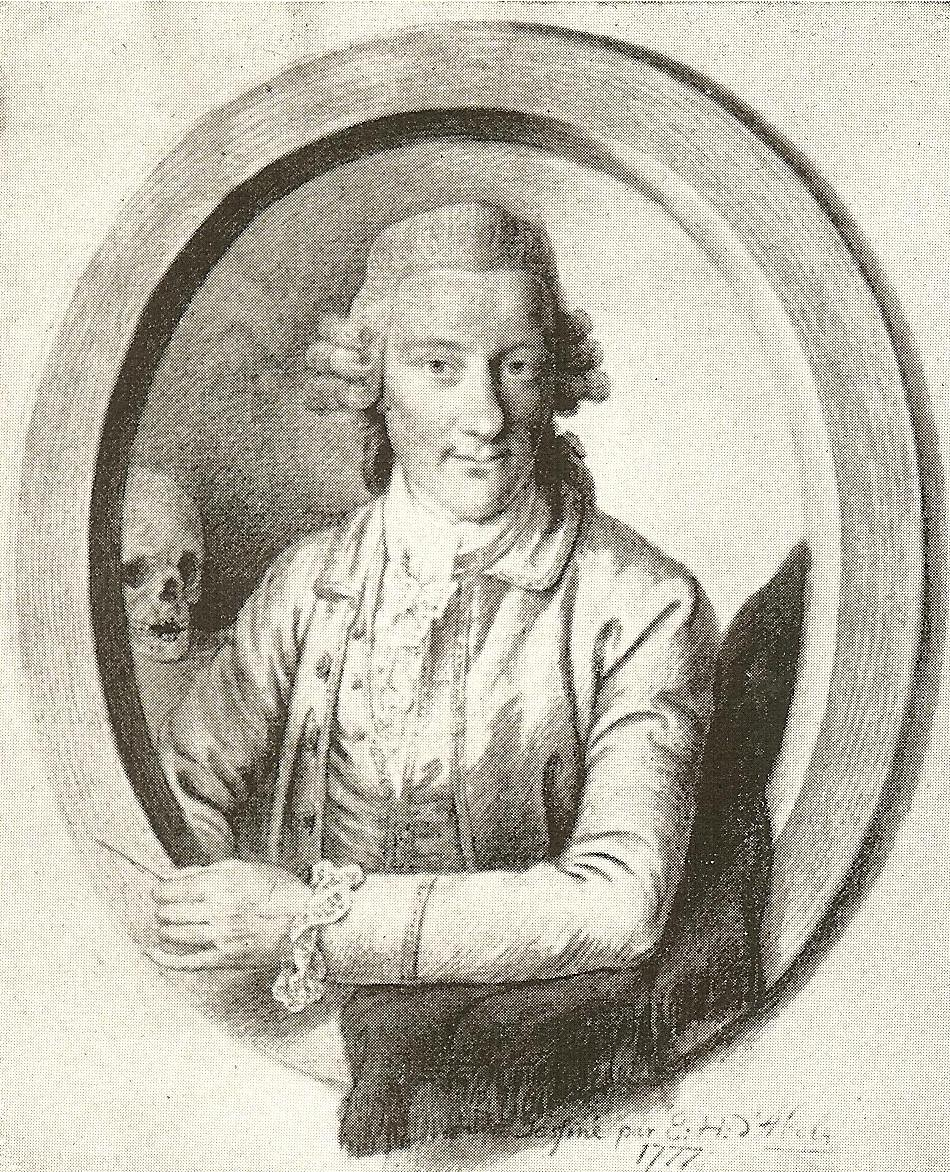 Portrait formerly in the collection of the Stadtbibliothek Lübeck, since 1973 in the collection of the Museum für Kunst- und Kulturgeschichte Lübeck Inv. 1973/245